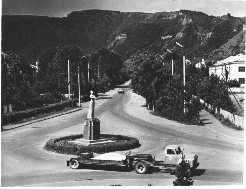 goryanka